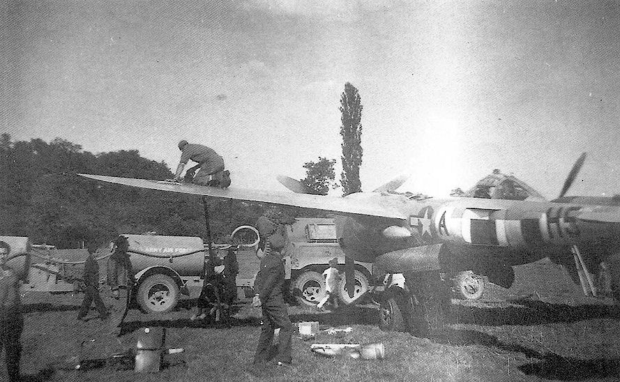 367th Fighter Group 392d FS P-38 Lightning at Carentan Airfield (A-10), France